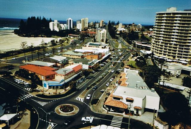 Gold Coast. The seris of low shacks and motels in the left middle ground of the photo have now been replaced with twin 20 floor glass high rise towers called 'Reflections'.